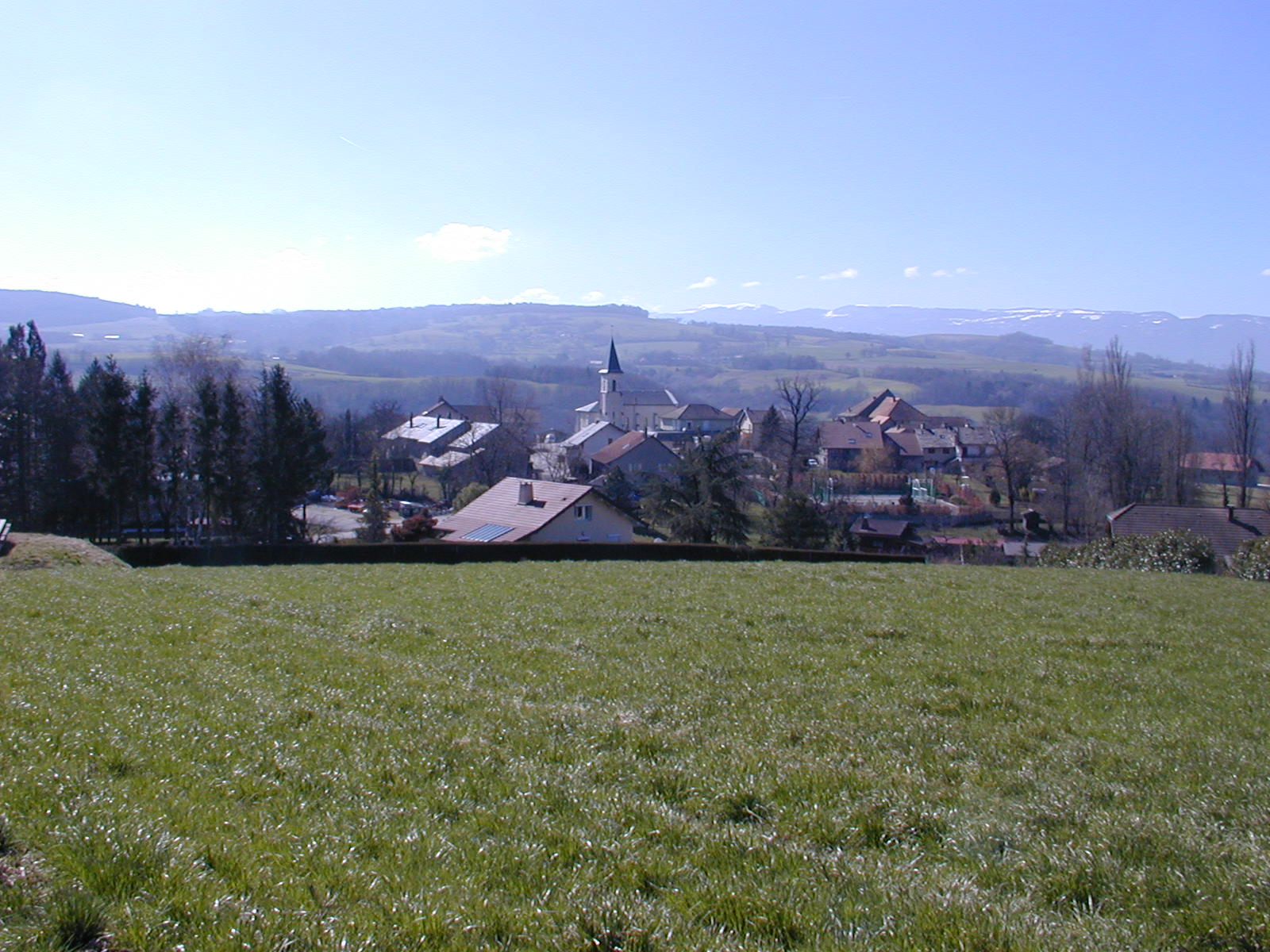 Village of Musièges, Haute-Savoie, France.